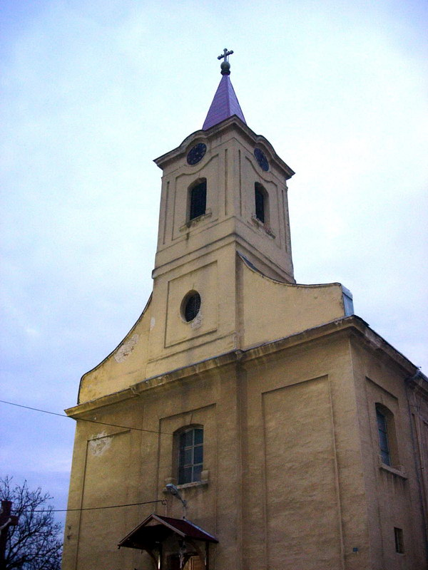 Saint Michael the Archangel Catholic Church in Bački Breg.